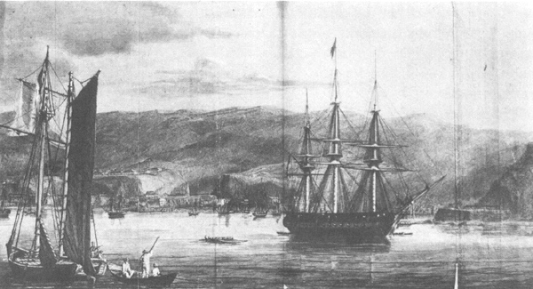 U.S. Frigate Potomac in Valparaiso Harbor, 1834.